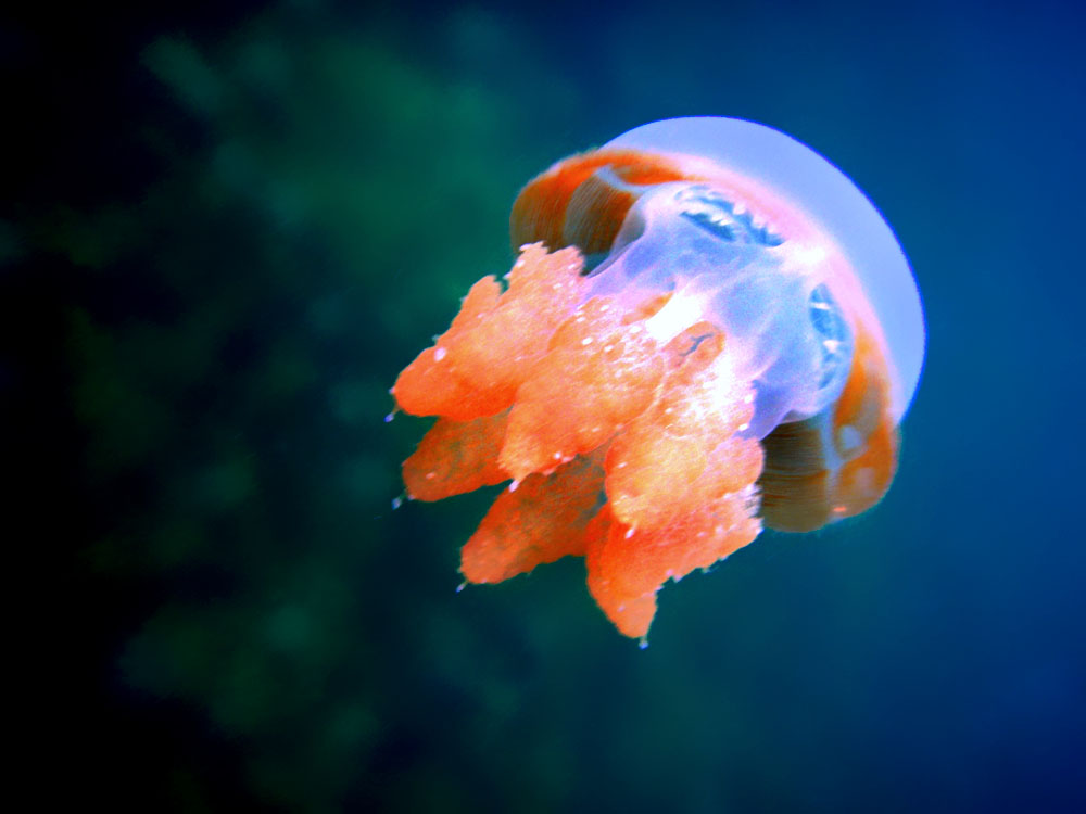 Stingless jellyfish. Millions of this wonderful creature lives in Kakaban Lake, Kakaban island East Borneo, Indonesia. Kakaban in local means "hug" meaning the island hugging the lake from sea water. It's believed that this kind of jellyfish has evolved into non-stinging jellyfish because they were trapped in brackish water.